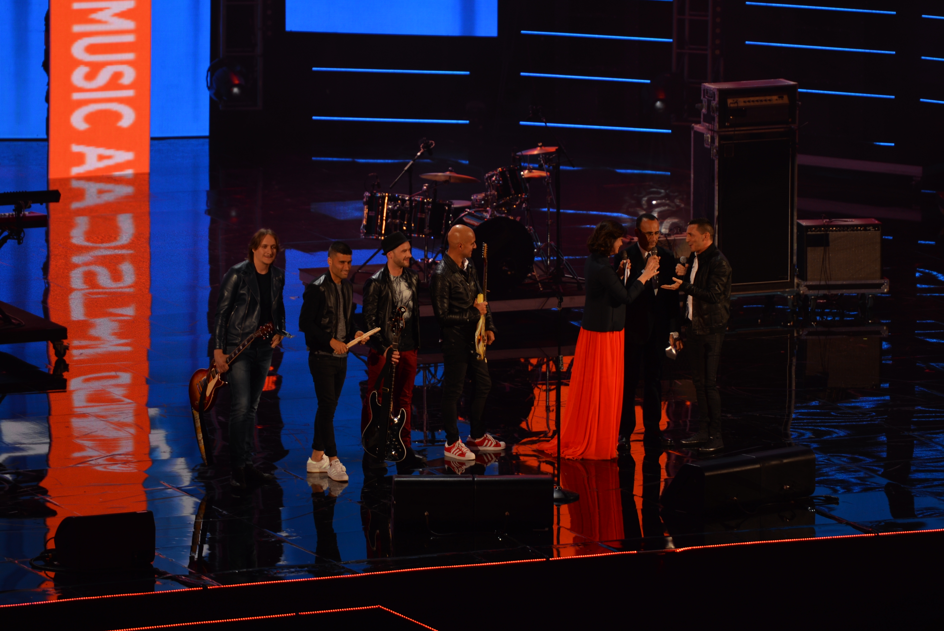 Modà at the Wind Music Awards 2016 ceremony at Verona Arena